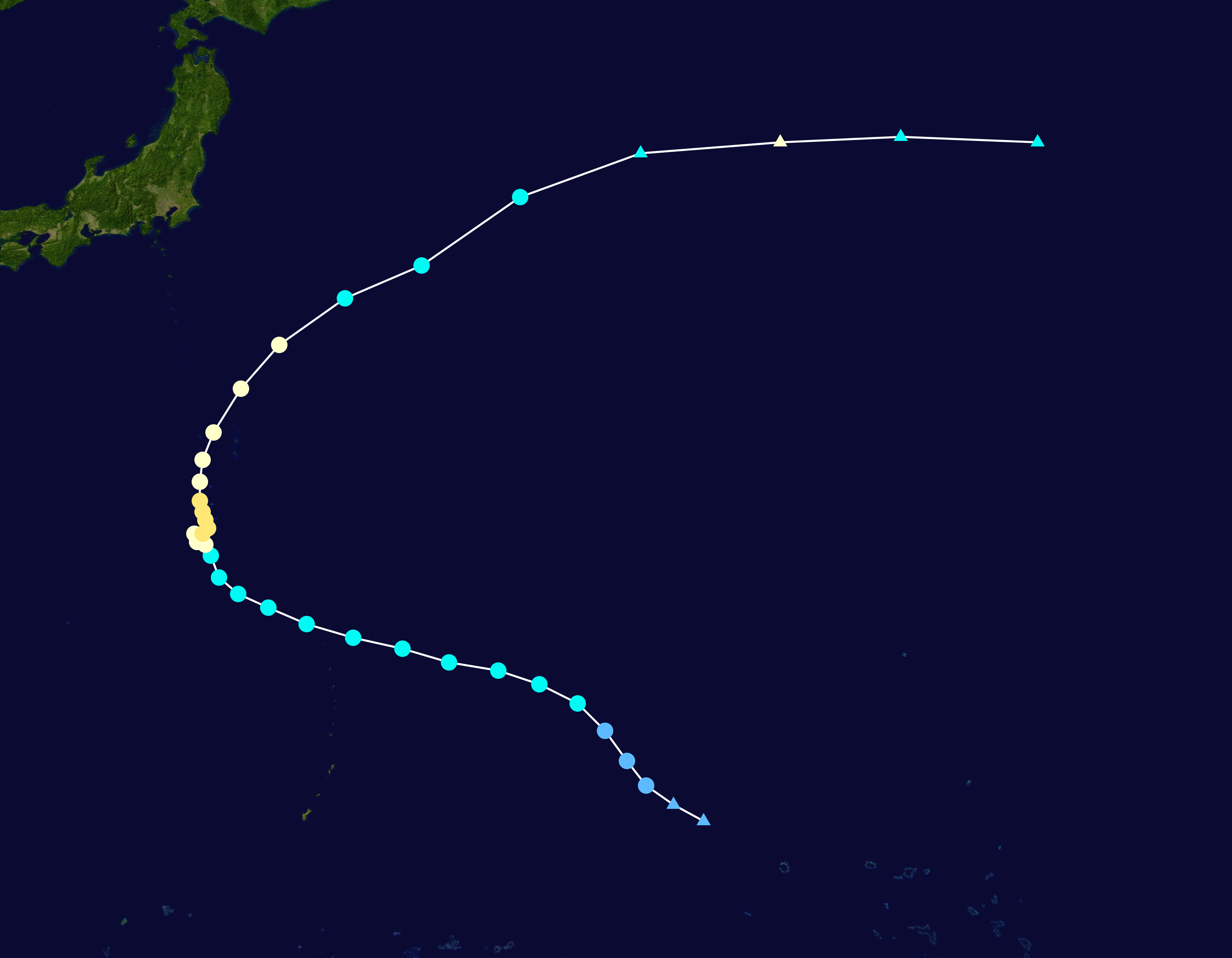 Typhoon Soulik (2006) track. Uses the color scheme from the Saffir-Simpson Hurricane Scale.